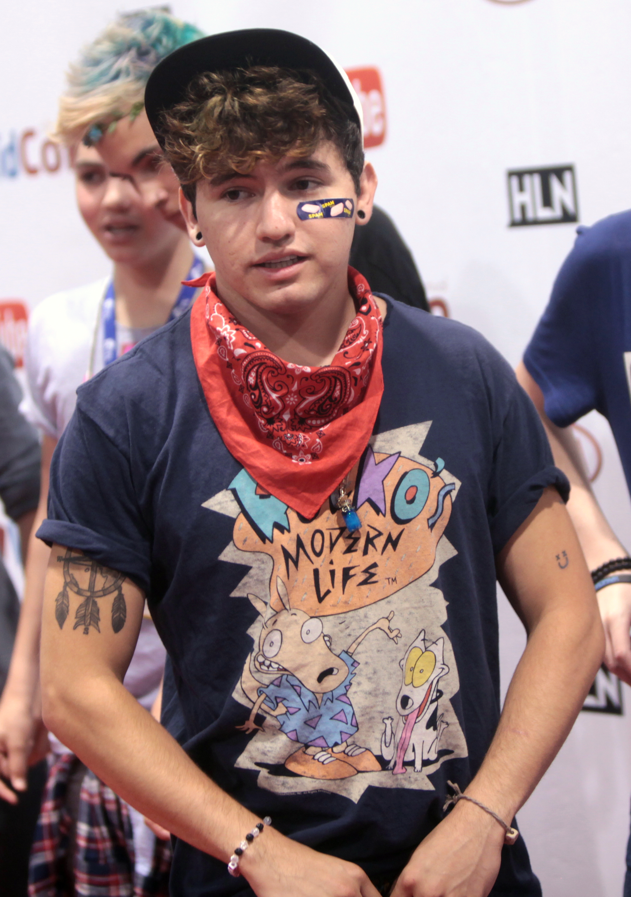 JC Caylen speaking at VidCon 2014 in Anaheim, California.